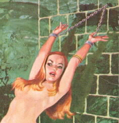 Image of S/M sexuality